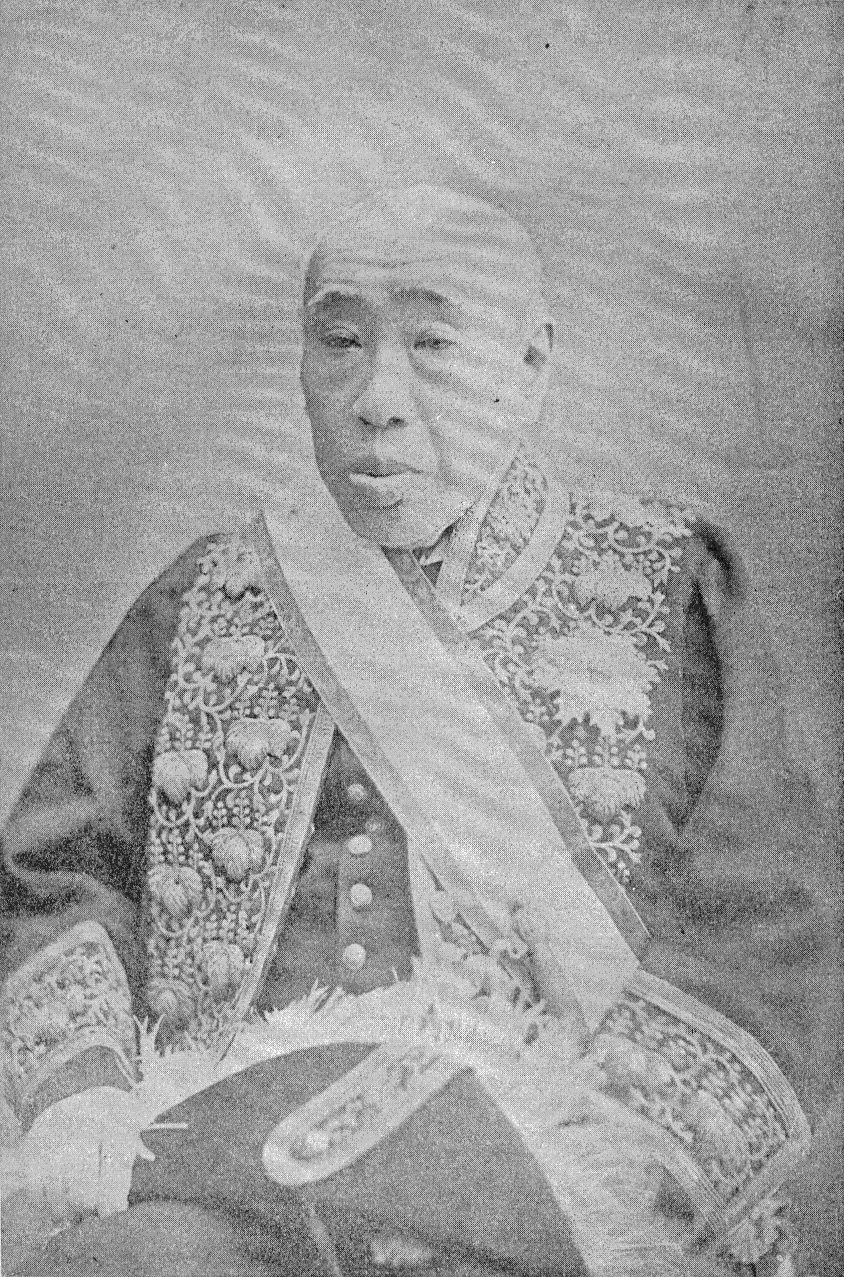 88-year-old Konoe Tadahiro